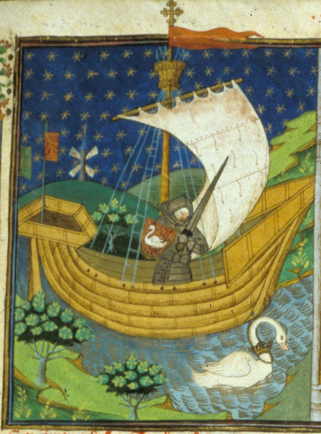 A knight in a boat drawn by a swan. Detail of a miniature, manuscript British Library, Royal 15 E VI ("Talbot Shrewsbury Book"), folio 273 (first page of Chanson du Chevalier au Cygne). Held and digitised by the British Library.